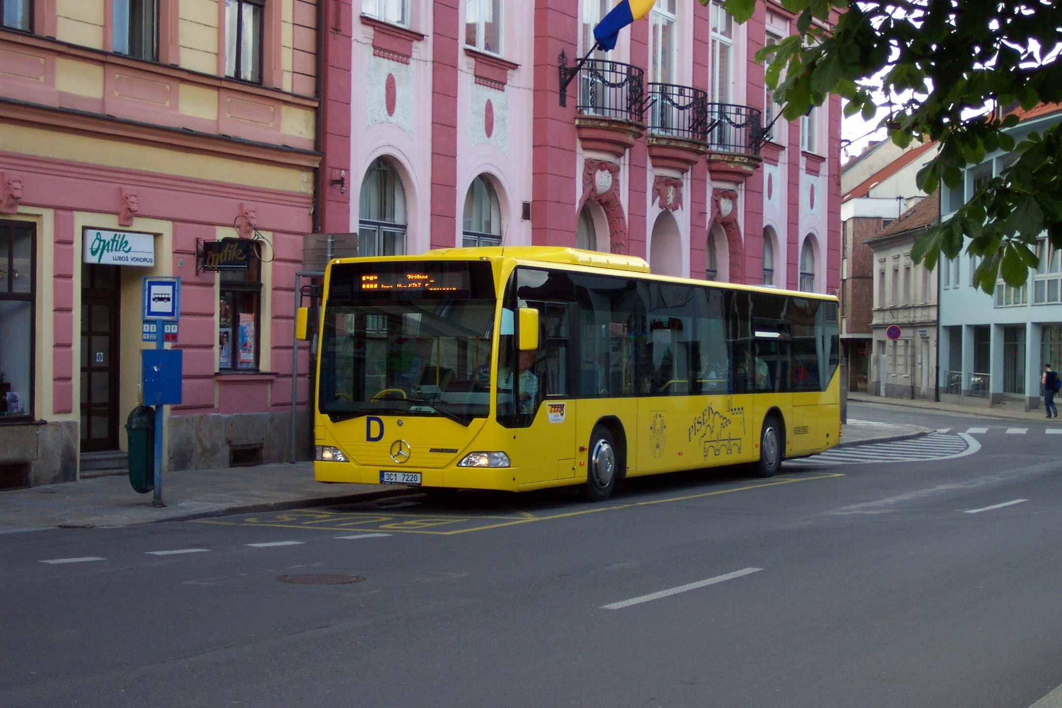 Bus type Mercedes Citaro in Písek